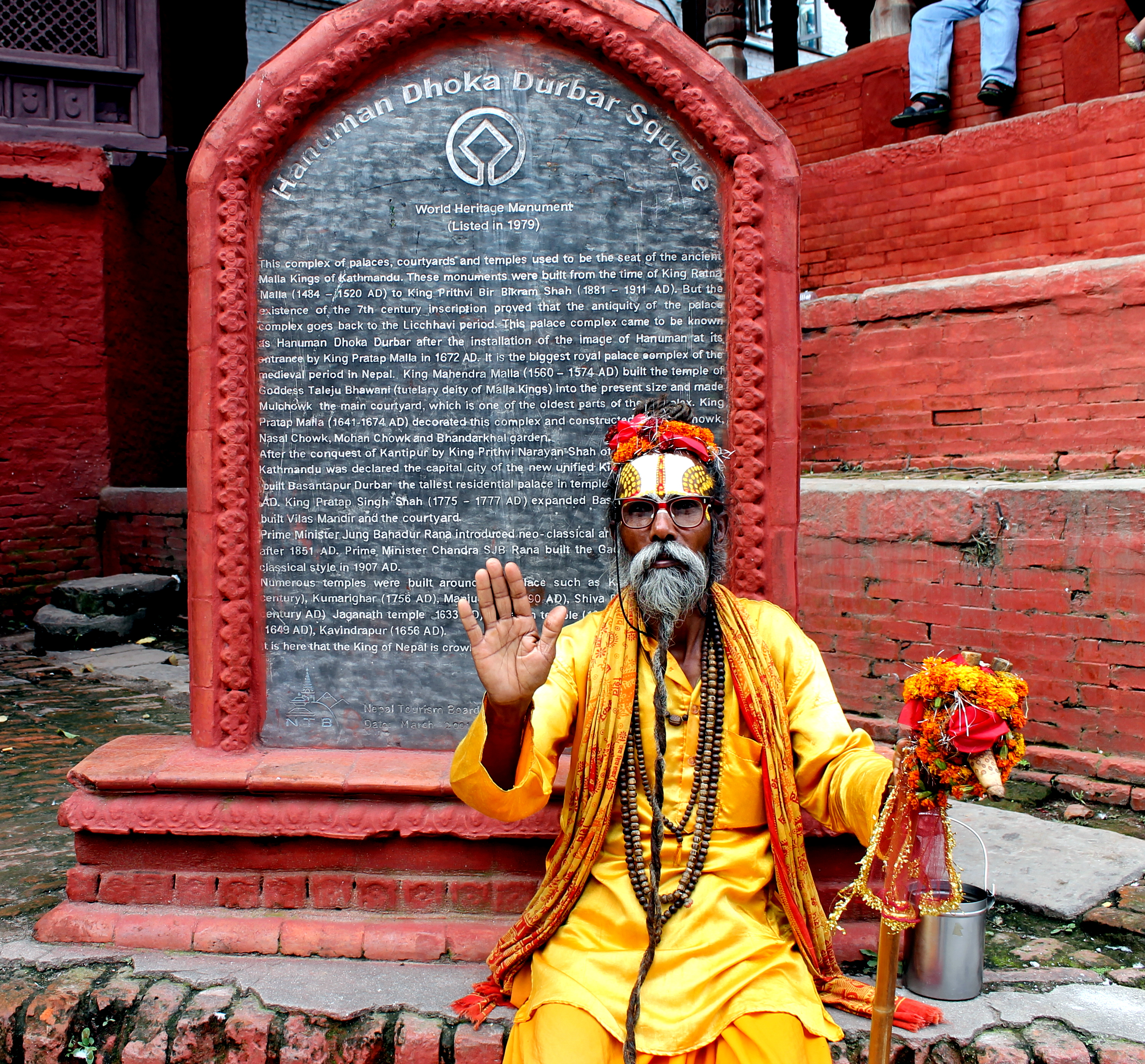 A stone inscription on the entrance of Hanuman Dhoka.